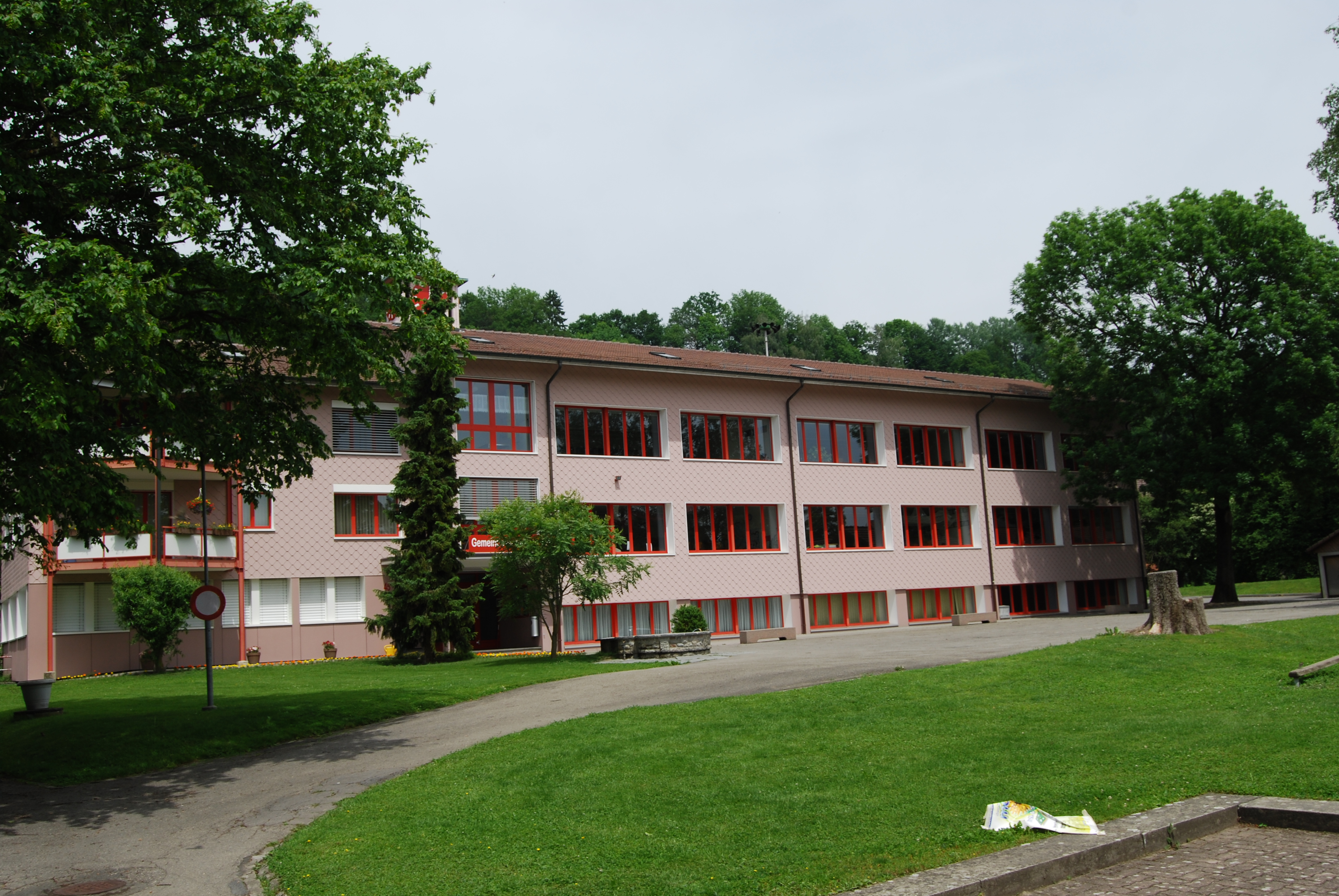 Meinisberg, canton of Bern, SwitzerlandEsperanto: Meinisberg, Kantono Berno, Svislando